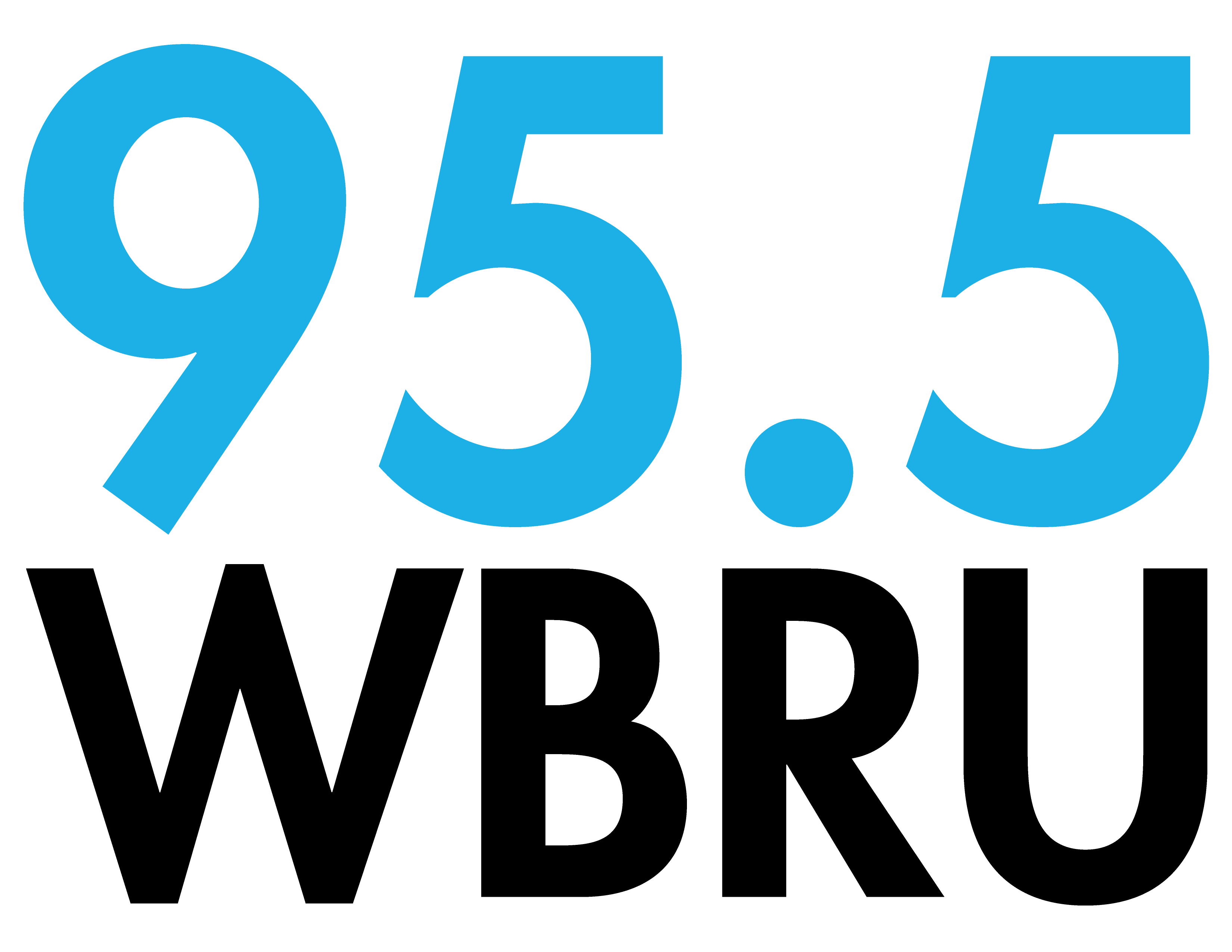 This was the logo for 95.5 WBRU-FM (Providence) developed in the fall of 2009 and deployed in 2010, before ultimately being retired on September 1, 2017 when WBRU-FM became K-Love affiliate, WLVO (FM).